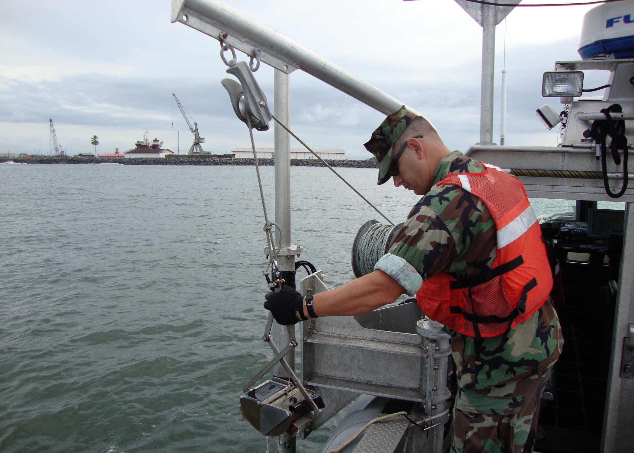 BUCHANAN, Liberia (Nov. 3, 2009) Lt. Travis Clem, a U.S. Navy hydrographic officer embarked aboard the Dutch navy Africa Partnership Station platform HNLMS Johan de Witt (L 801), recovers a bottom-sampling device during a hydrographic survey of the Buchanan port. The device is used to gather samples of the seafloor to determine the sediment type of the harbor. This survey, and other surveys conducted in Greenville and Monrovia, will provide data to update navigational charts. Johan de Witt is the first European-led Africa Partnership Station platform and is augmented by staff from Belgium, Portugal and the United States. Africa Partnership Station, originally a U.S. Navy initiative, is now an international effort aimed at improving maritime safety and security in Africa. (U.S. Navy photo by Lt. Steve McIntyre/Released)